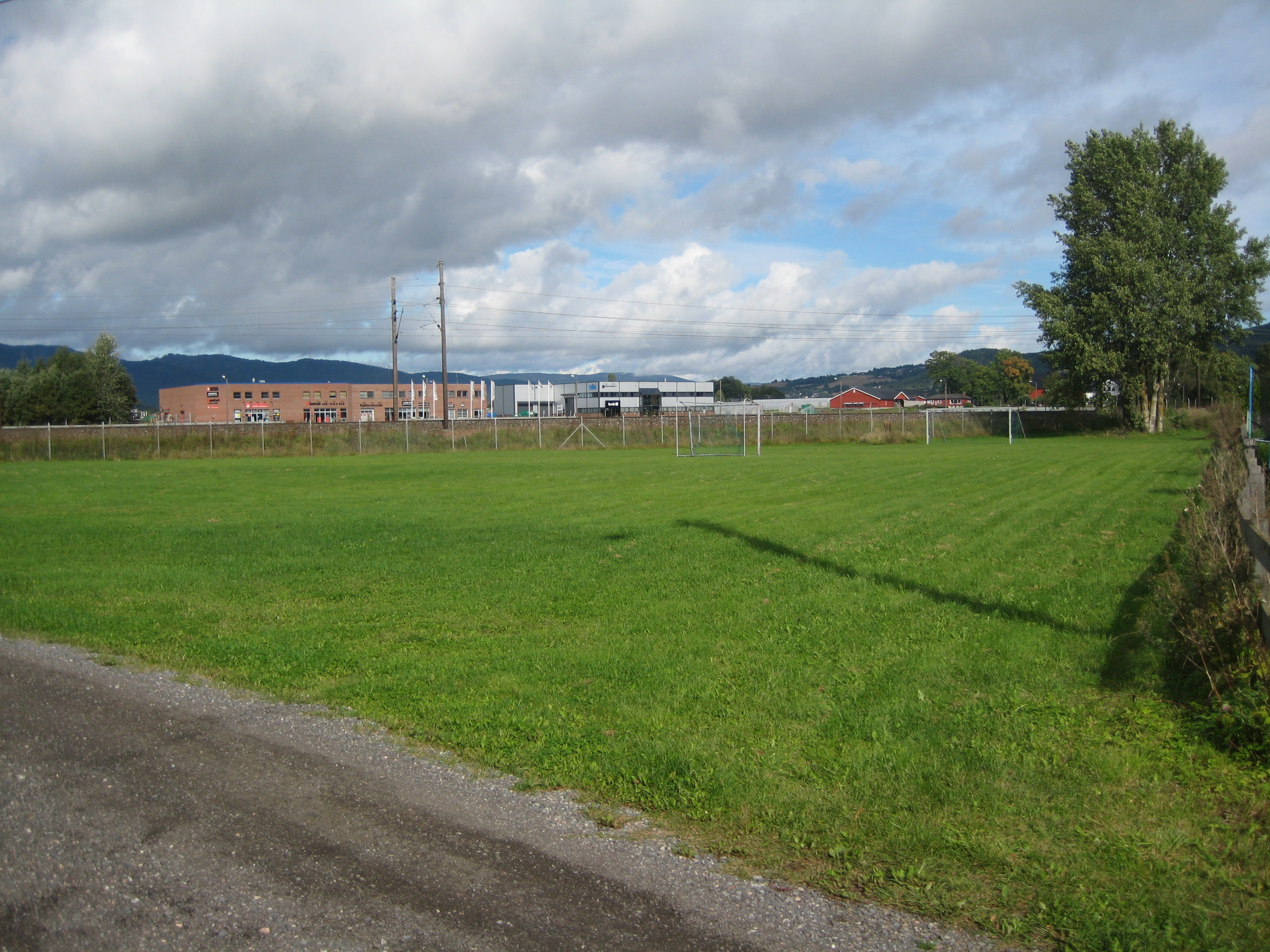 The remaining parts of Spartabanen, home ground of football team IF Sparta at Huseby in Lier muncipalitiy, Buskerud county, Norway.